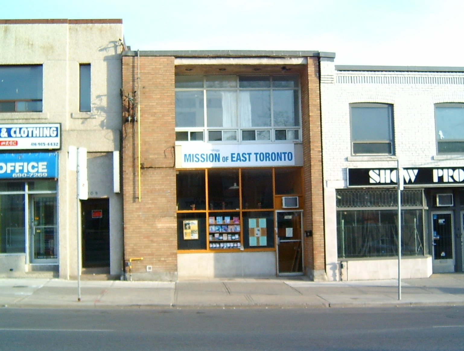 Church of Scientology Mission of East York, taken by Ron Sharp, April 20th, 2007. Cropped to cut surrounding stores. The mission closed in 2009.